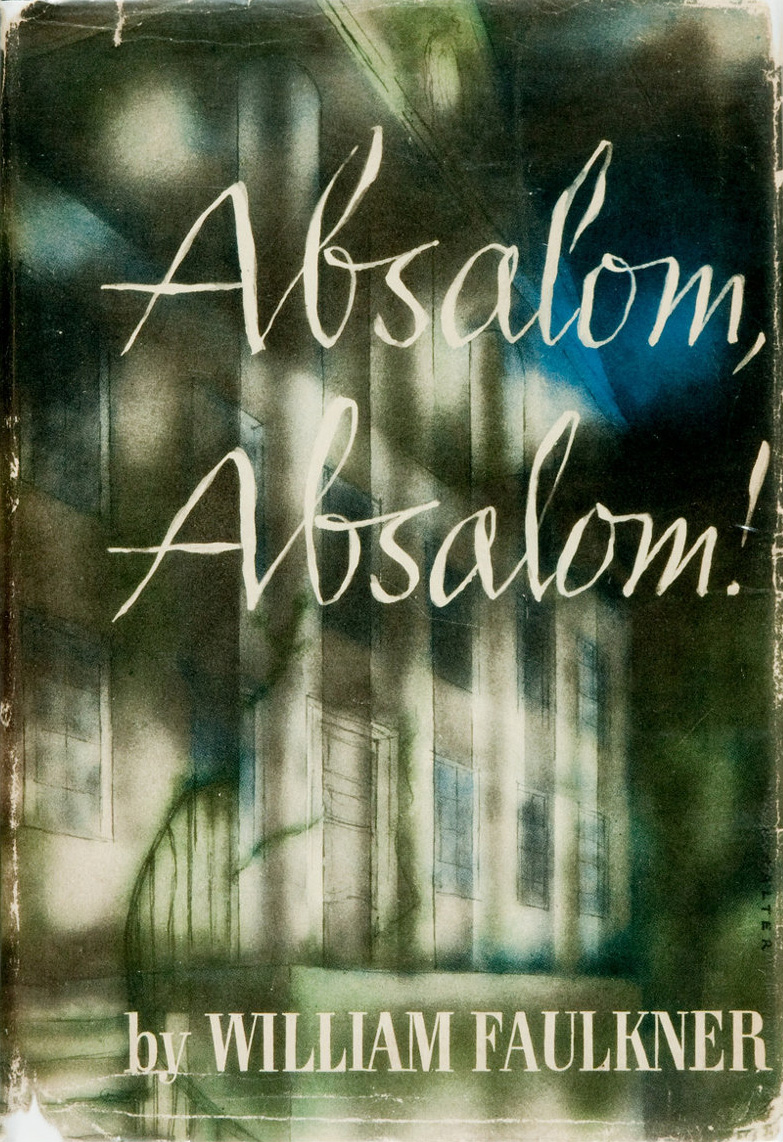 First-edition dust jacket cover of Absalom, Absalom! (1936) by the American author William Faulkner.